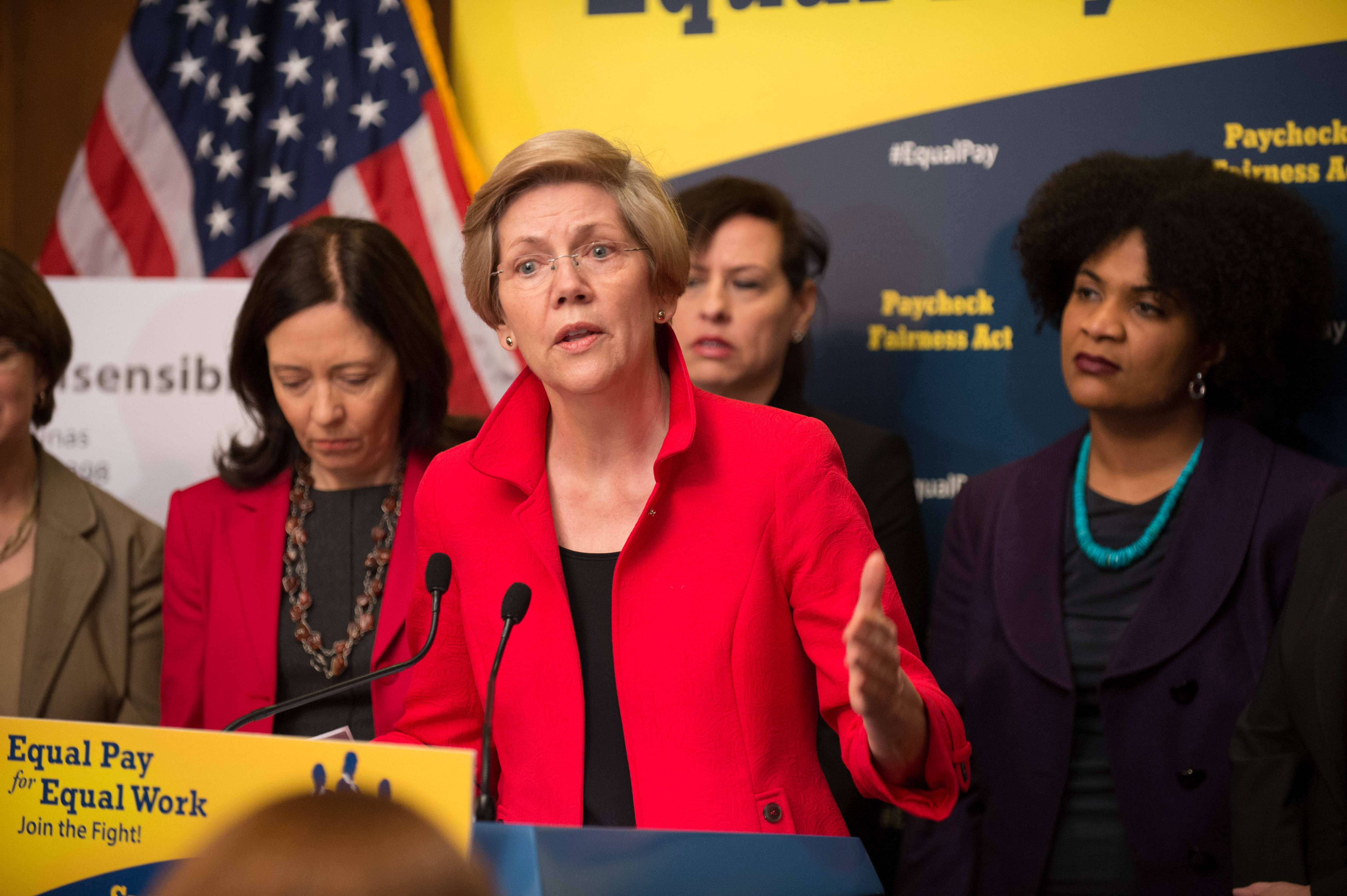 Senate to take up and pass the Paycheck Fairness Act, legislation which will help close the wage gap between women and men working equivalent jobs, costing women and their families $434,000 over their careers